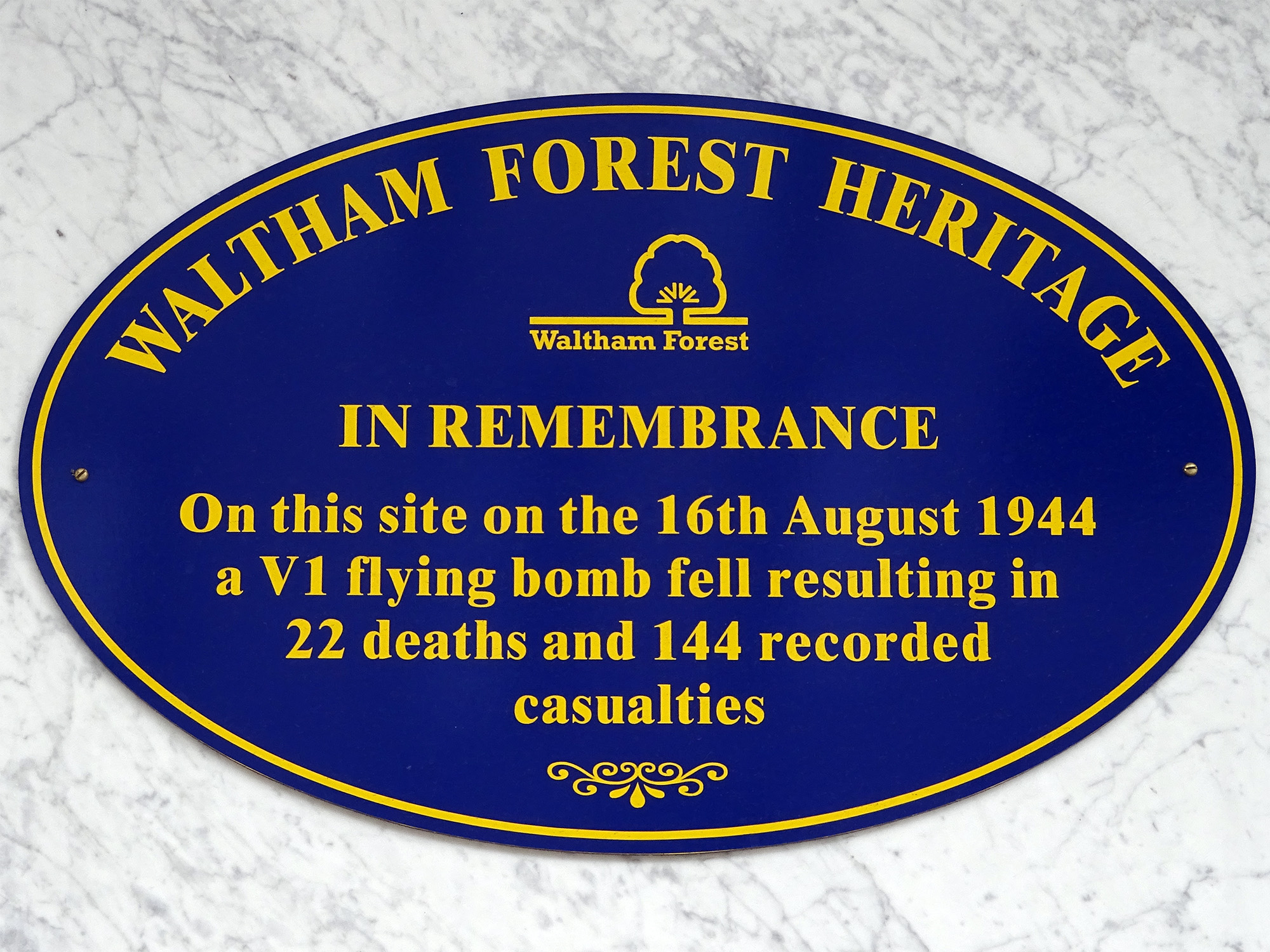 Blue Plaque erected on 28th July 2015 at Central Parade, Walthamstow, London E17 by Waltham Forest Borough Council